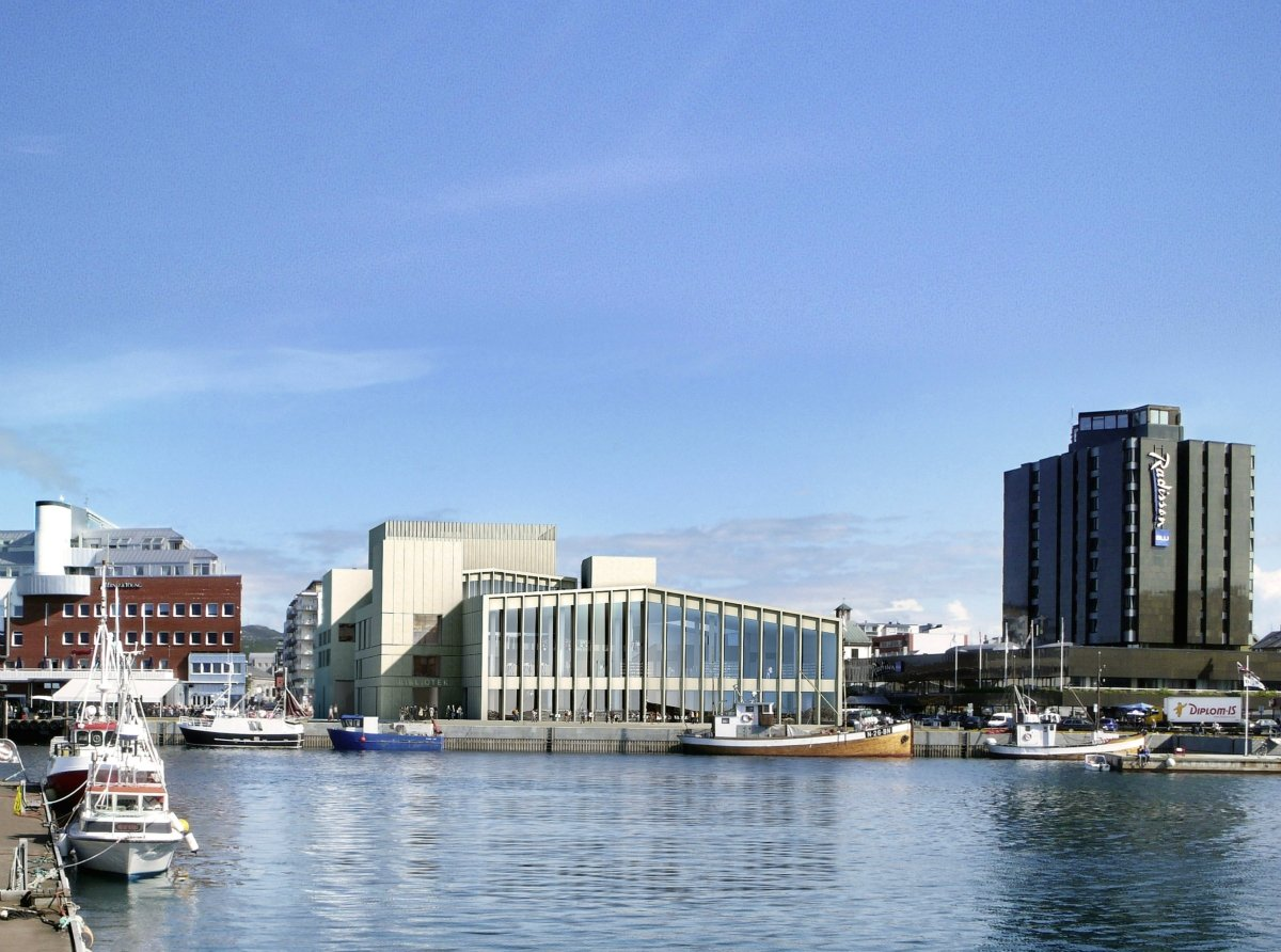 illustrasjon: DRDH Architects/Bodø kommune